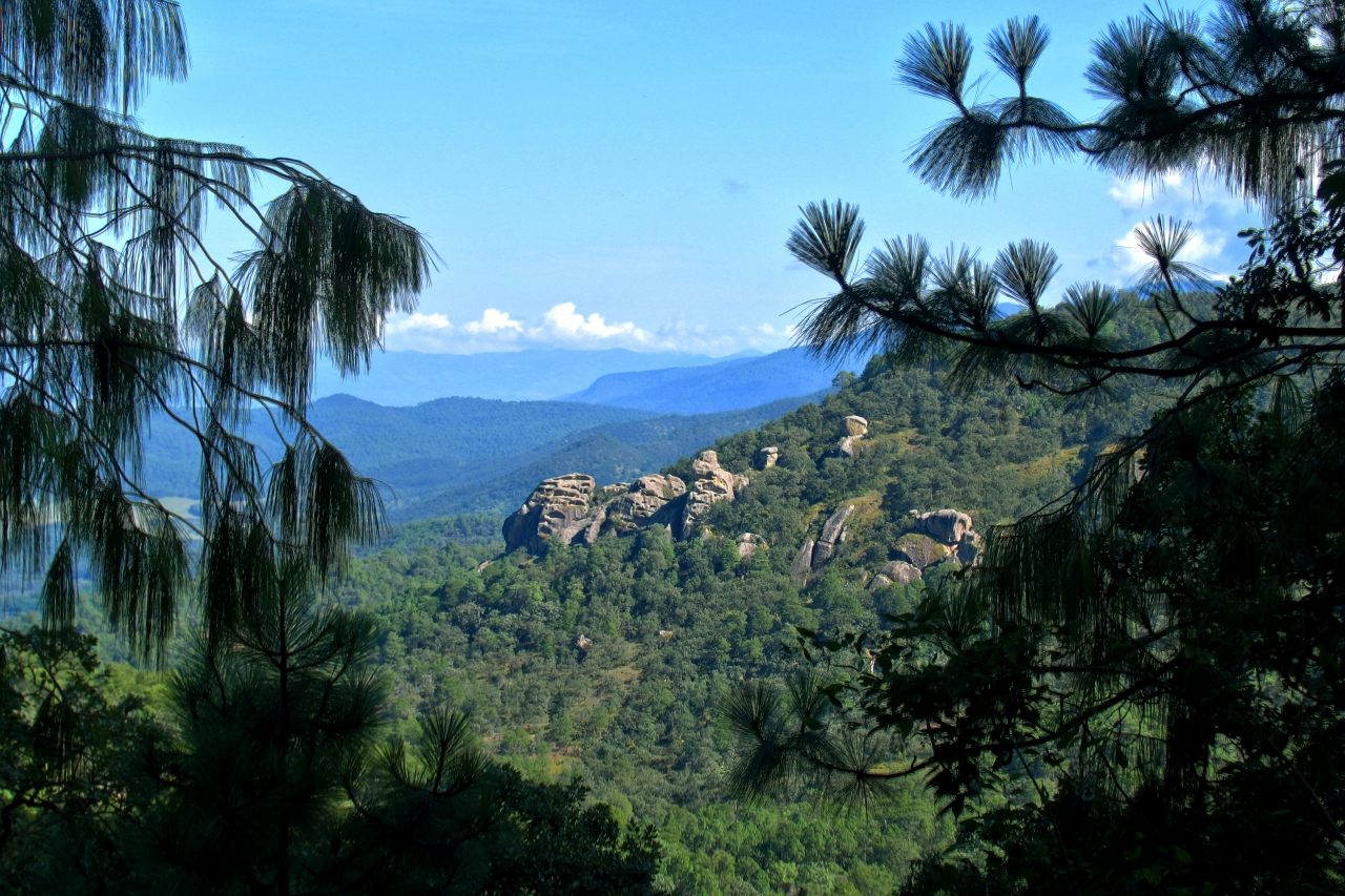 Near to Chiquilistlán